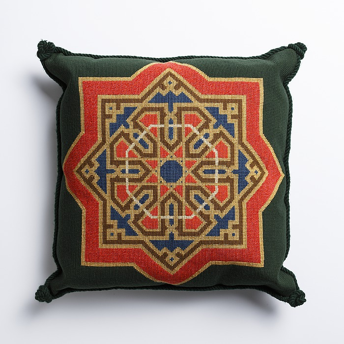 Cushion embroidered by the Danish textile artist Johanne Bindesbøll and held in the collection of Thorvaldsens Museum, Copenhagen. It measures 48 x 48 cm.